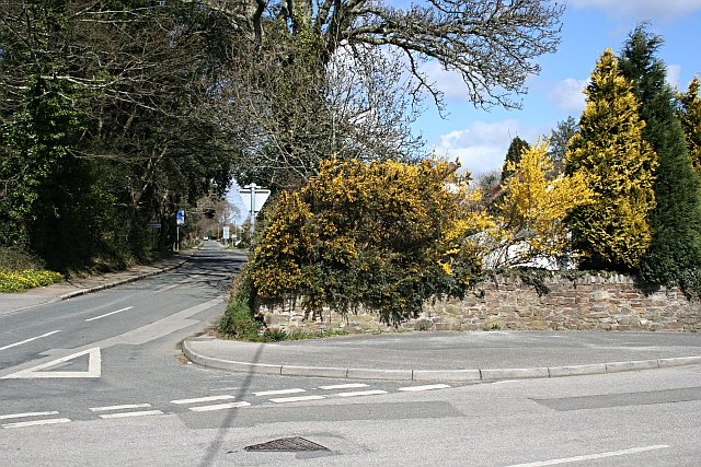 Playing Place. Looking down Old Coach Road at the junction with Holywell Road. Playing Place is a dormitory suburb of Truro composed mainly of 20th century detached houses and bungalows. The name "Playing Place" denotes a place where people used to meet for performances of Mystery Plays and the like.